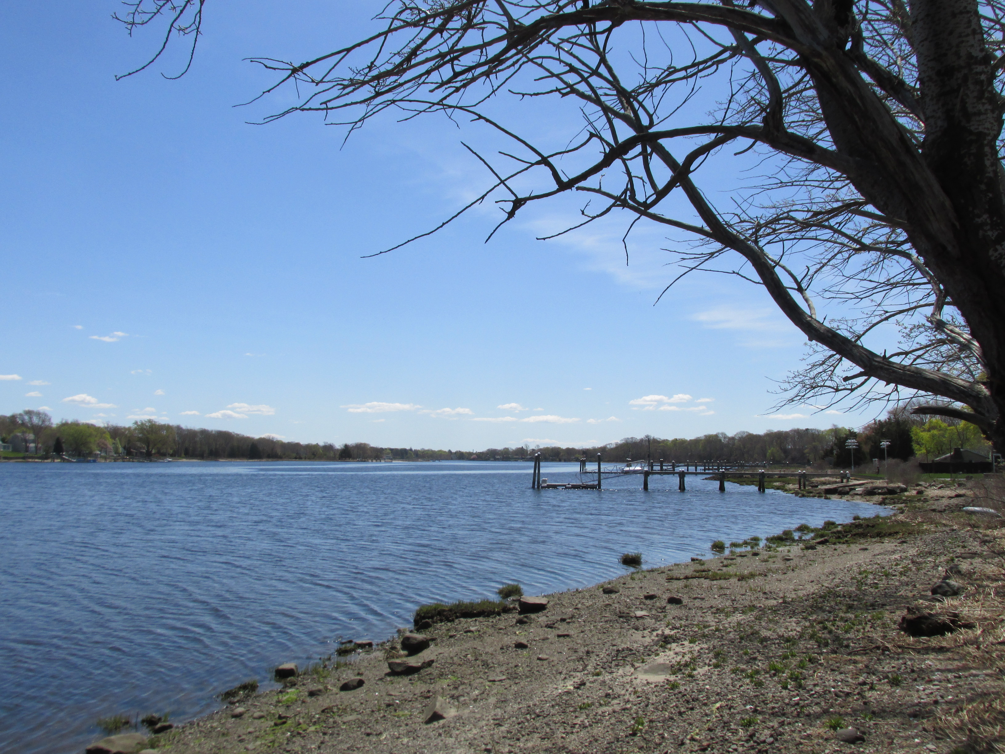 Barrington River, Barrington Rhode Island - 2014